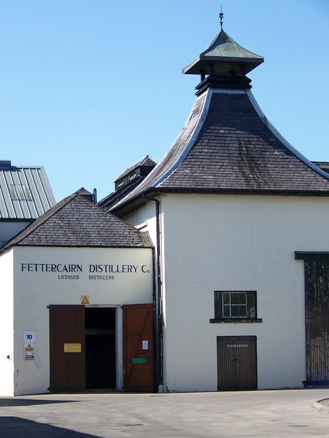 Fettercairn Distillery The history of Fettercairn Distillery mirrors the up and down fortunes of the whisky industry. Initially it was run as a farm distillery by tenants of the Fasque estate, then by limited companies before being incorporated into Distillers Company Limited and then Whyte & Mackay in 1973.